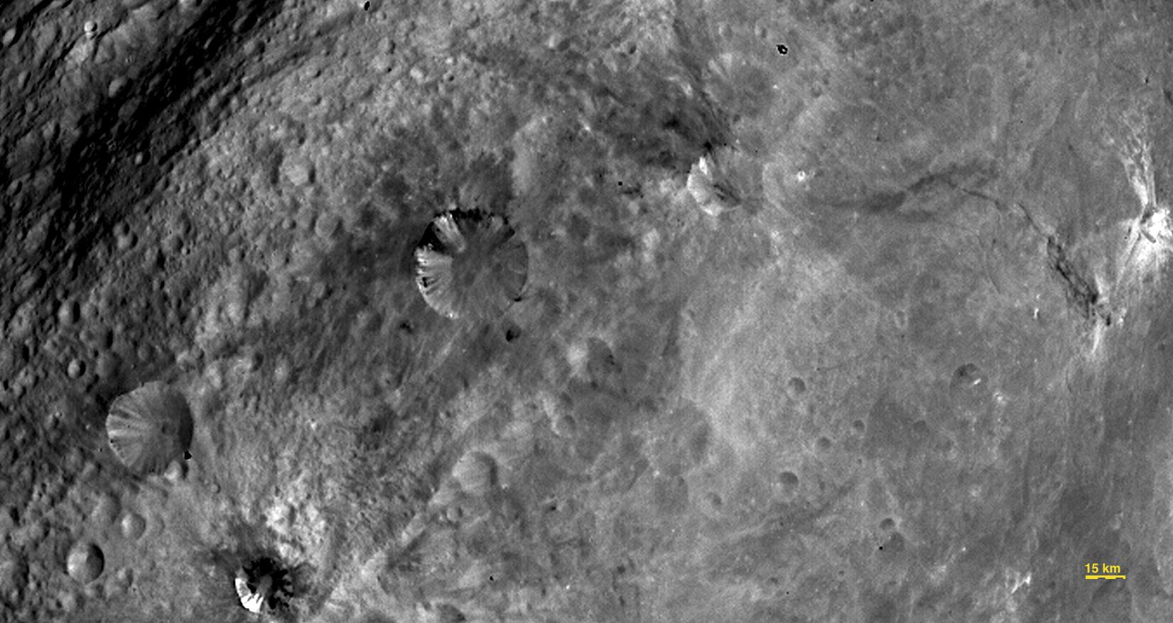 This image, obtained by the framing camera on NASA's Dawn spacecraft, shows various craters that are visible in the southern equatorial region of the giant asteroid Vesta.